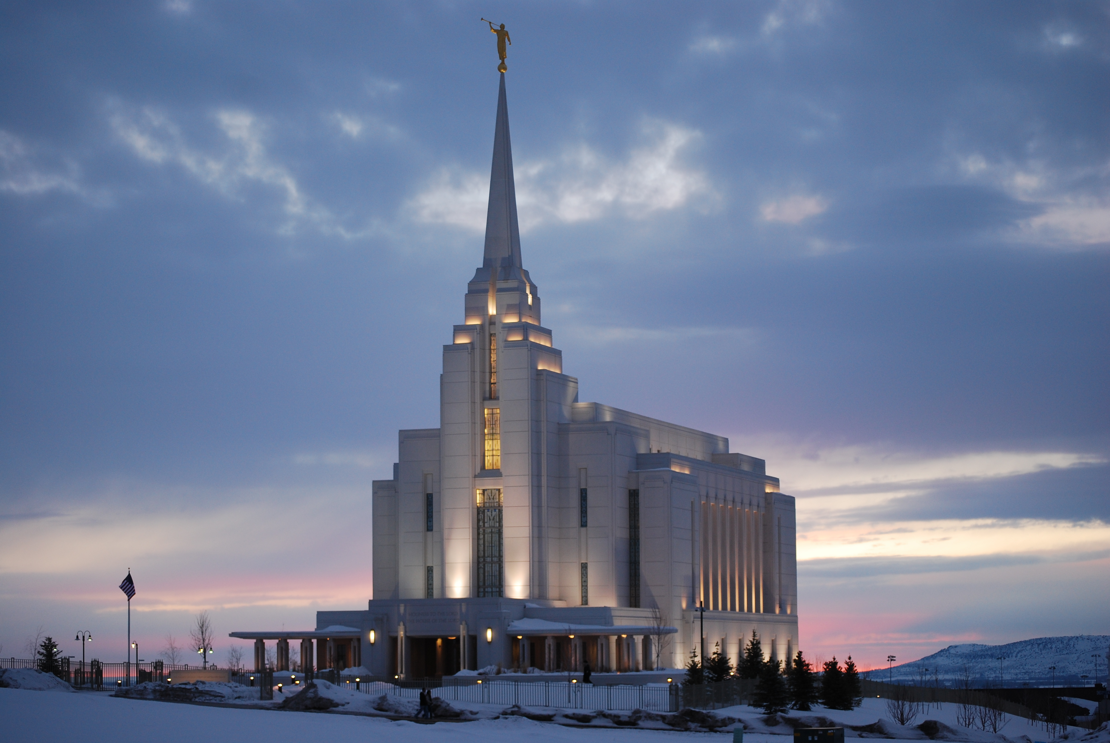 High resolution photo of the Rexburg Idaho Temple of The Church of Jesus Christ of Latter-day Saints at sunset; located in Rexburg, Madison County, Idaho, south of BYU-Idaho campus.